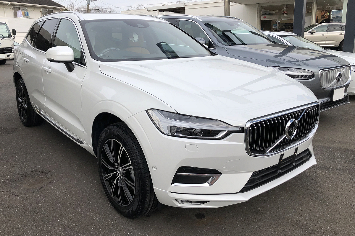 VOLVO XC60 T5 AWD FRONT(JPN).Photographed in Japan.